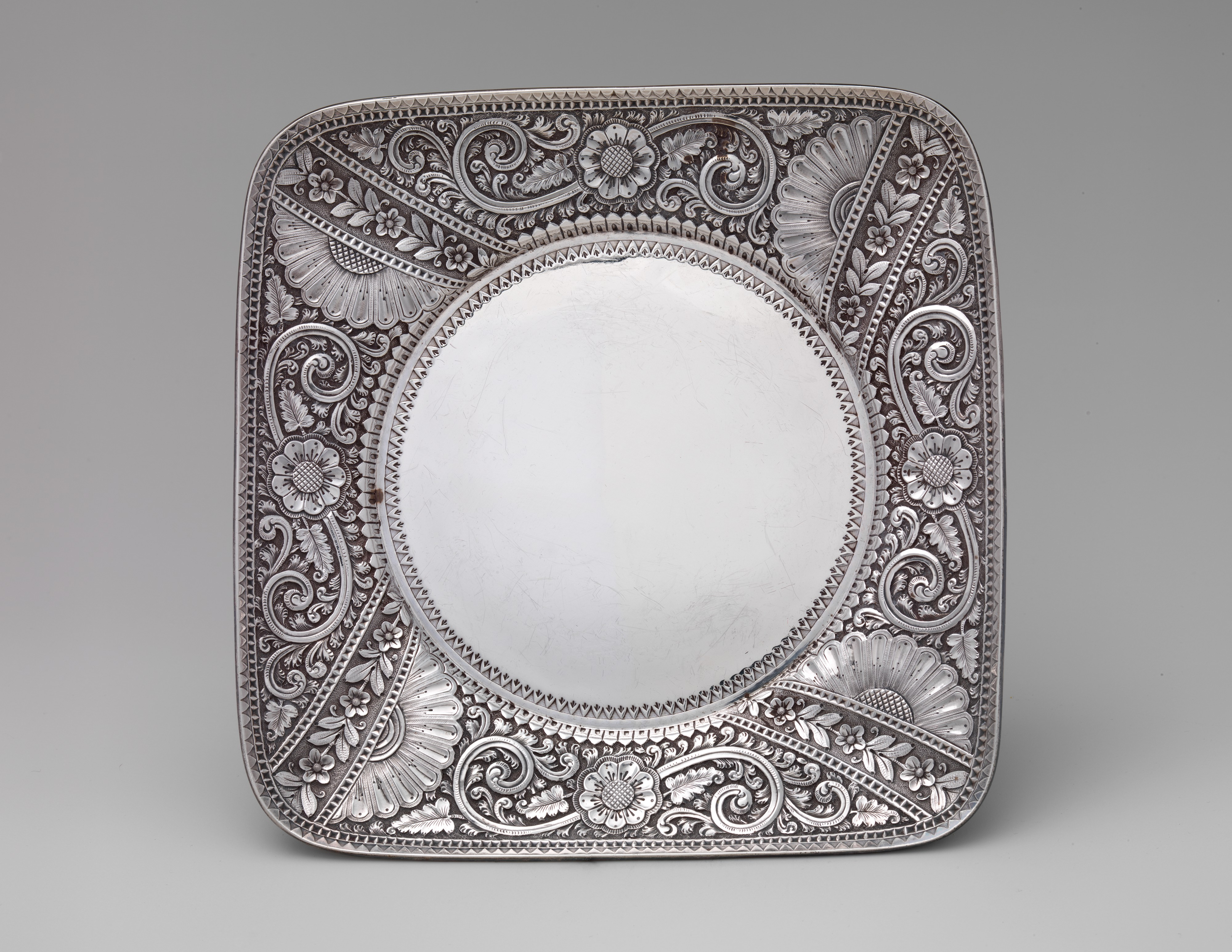 American; Tray; Silver